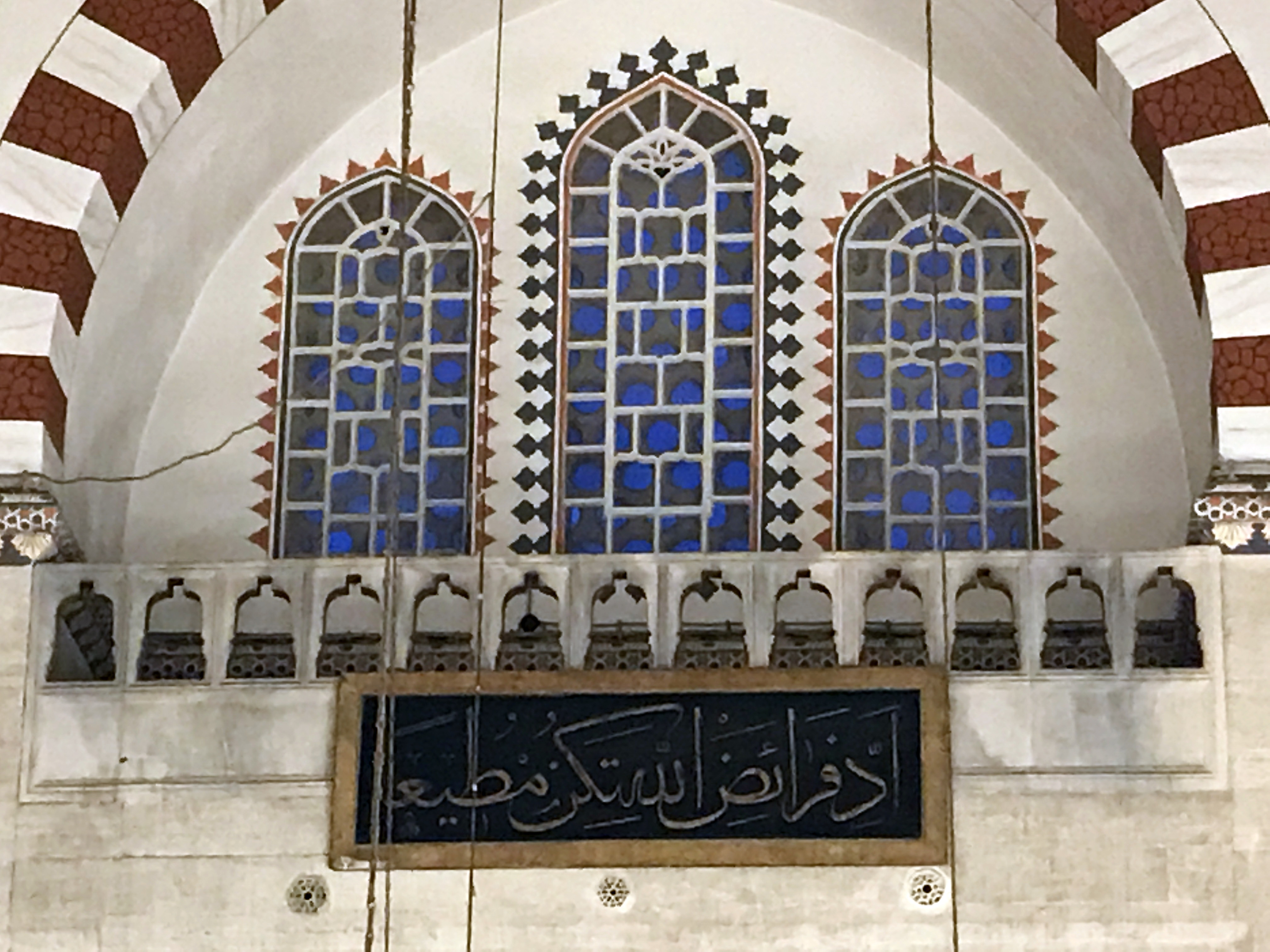 Şehzade Mosque, a 16th-century Ottoman imperial mosque located in the district of Fatih, on the third hill of Istanbul, Turkey. It was commissioned by Suleiman the Magnificent as a memorial to his favorite son Şehzade Mehmed who died in 1543. It is sometimes referred to as the "Prince's Mosque" in English. Suleiman is said to have personally mourned the death of Mehmed for forty days at his temporary tomb in Istanbul, the site upon which the imperial architect Mimar Sinan would construct a lavish mausoleum to Mehmed as one part of a larger mosque complex dedicated to the princely heir. The complex was Sinan's first important imperial commission and ultimately one of his most ambitious architectural works, even though it was designed early in his long career.